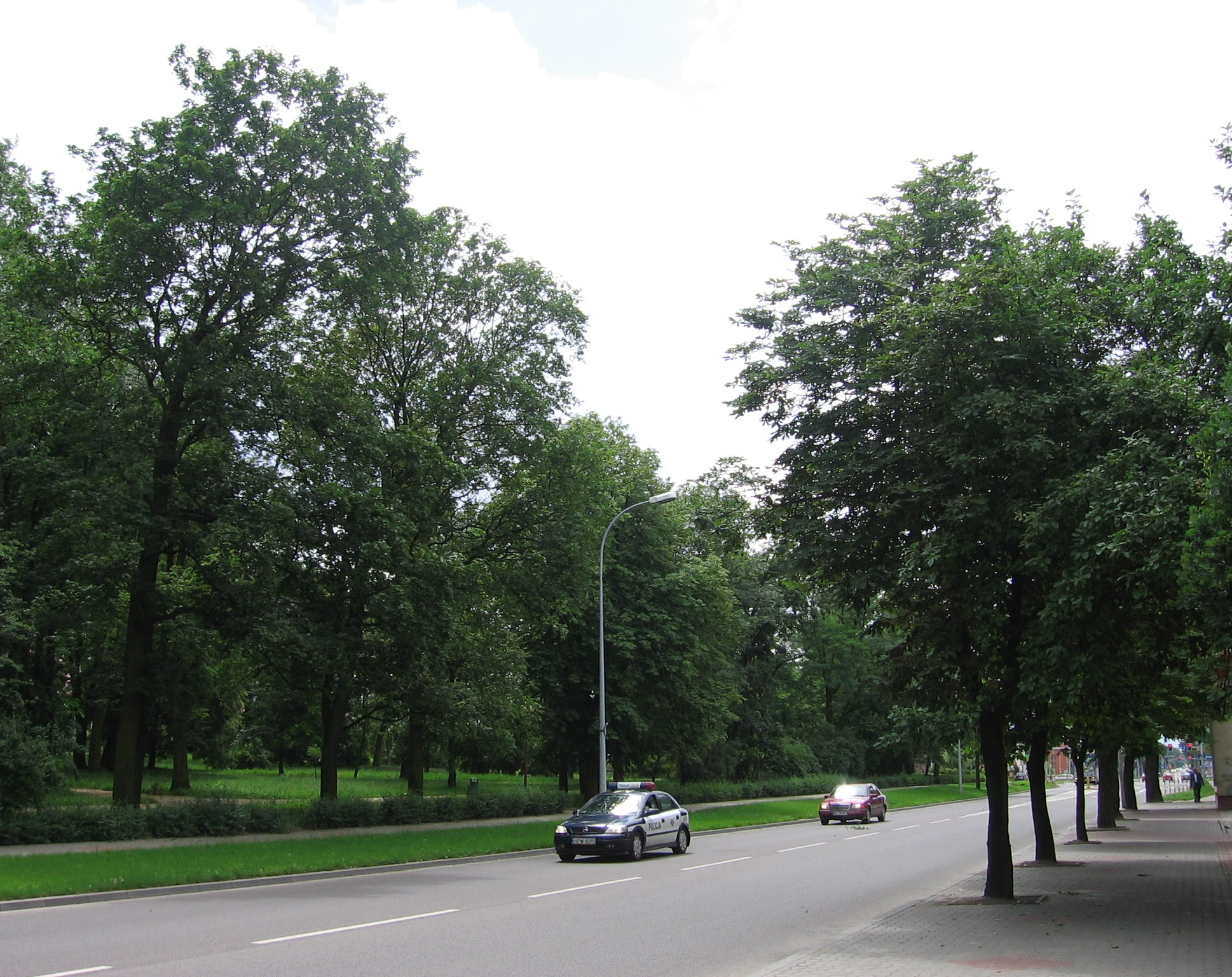 Legionów Avenue in Łomża (left side: People's Park)